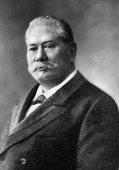 Gustav List, Moscow industrialist of German roots